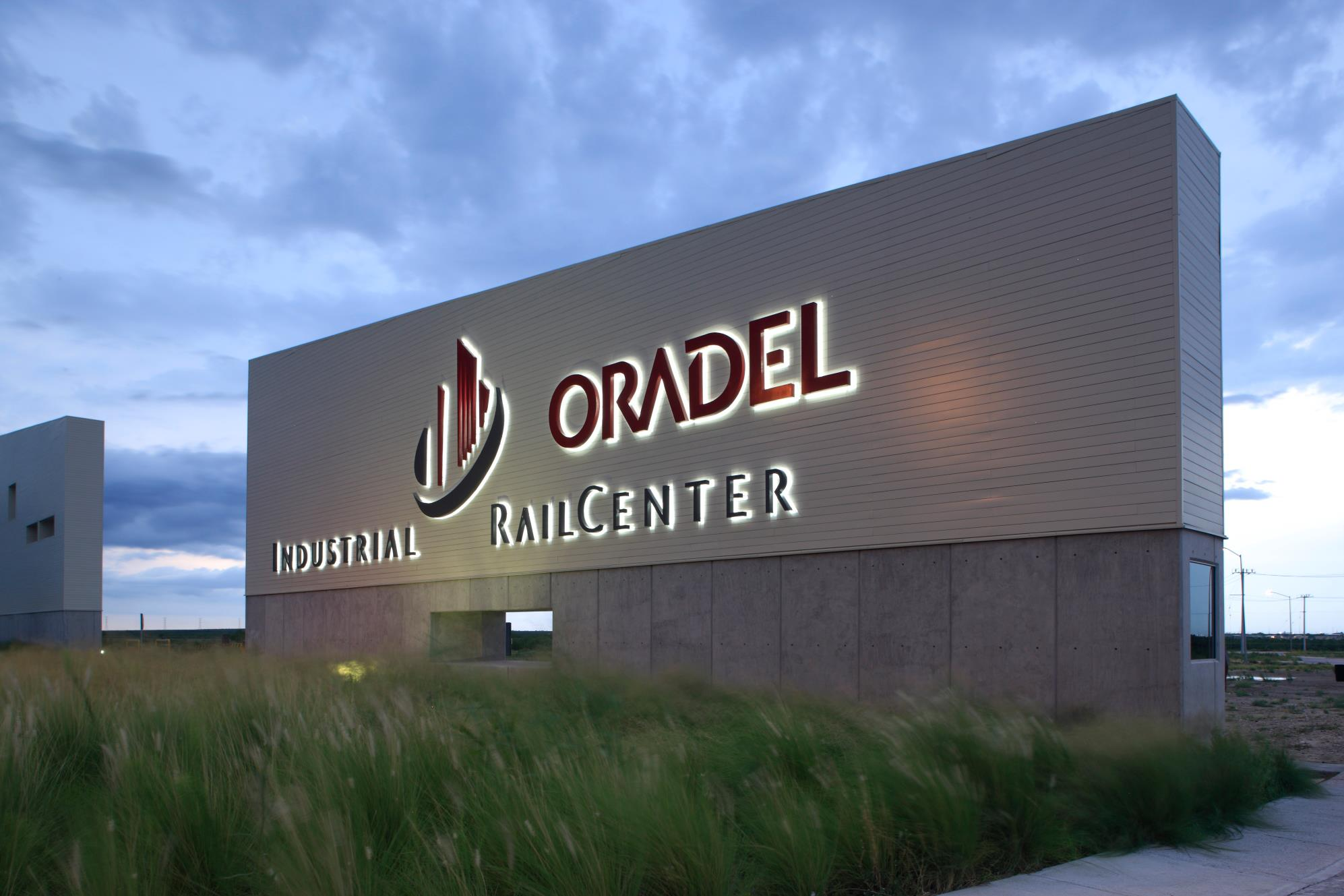 Oradel has the widest range in available properties in Nuevo Laredo for the development of Industrial Buildings and Warehouses for manufacturing and storage, inventory and logistics.